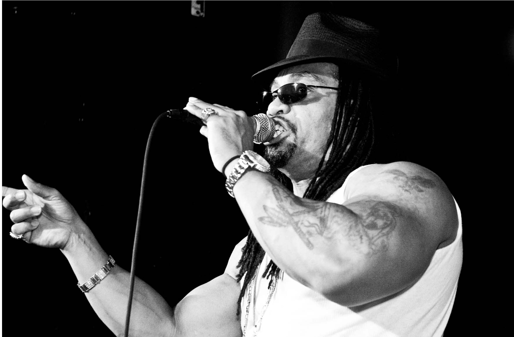 Melle Mel performing at the Canal Room on January 16, 2010.